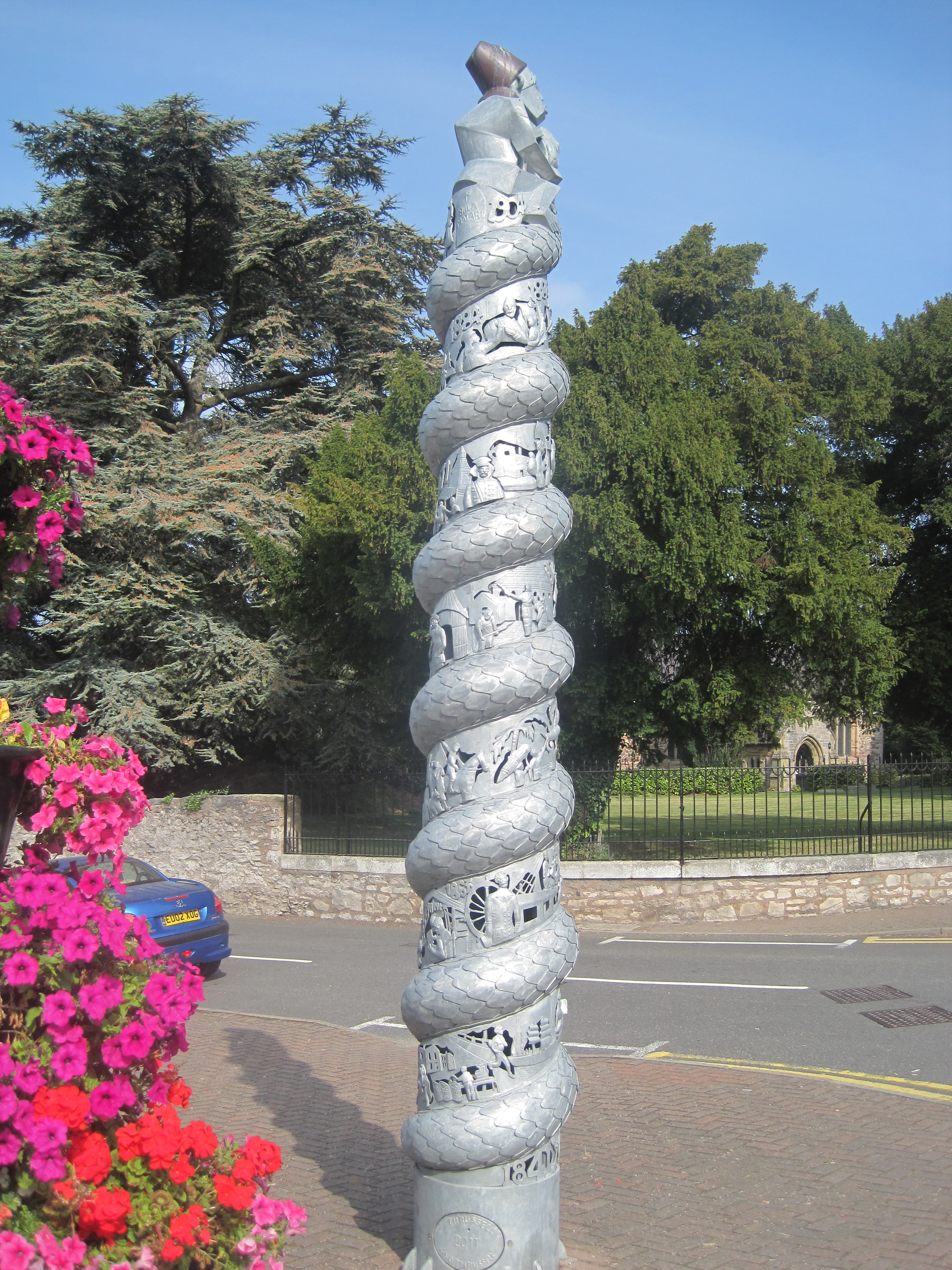 H M Stanley sculpture, St Asaph